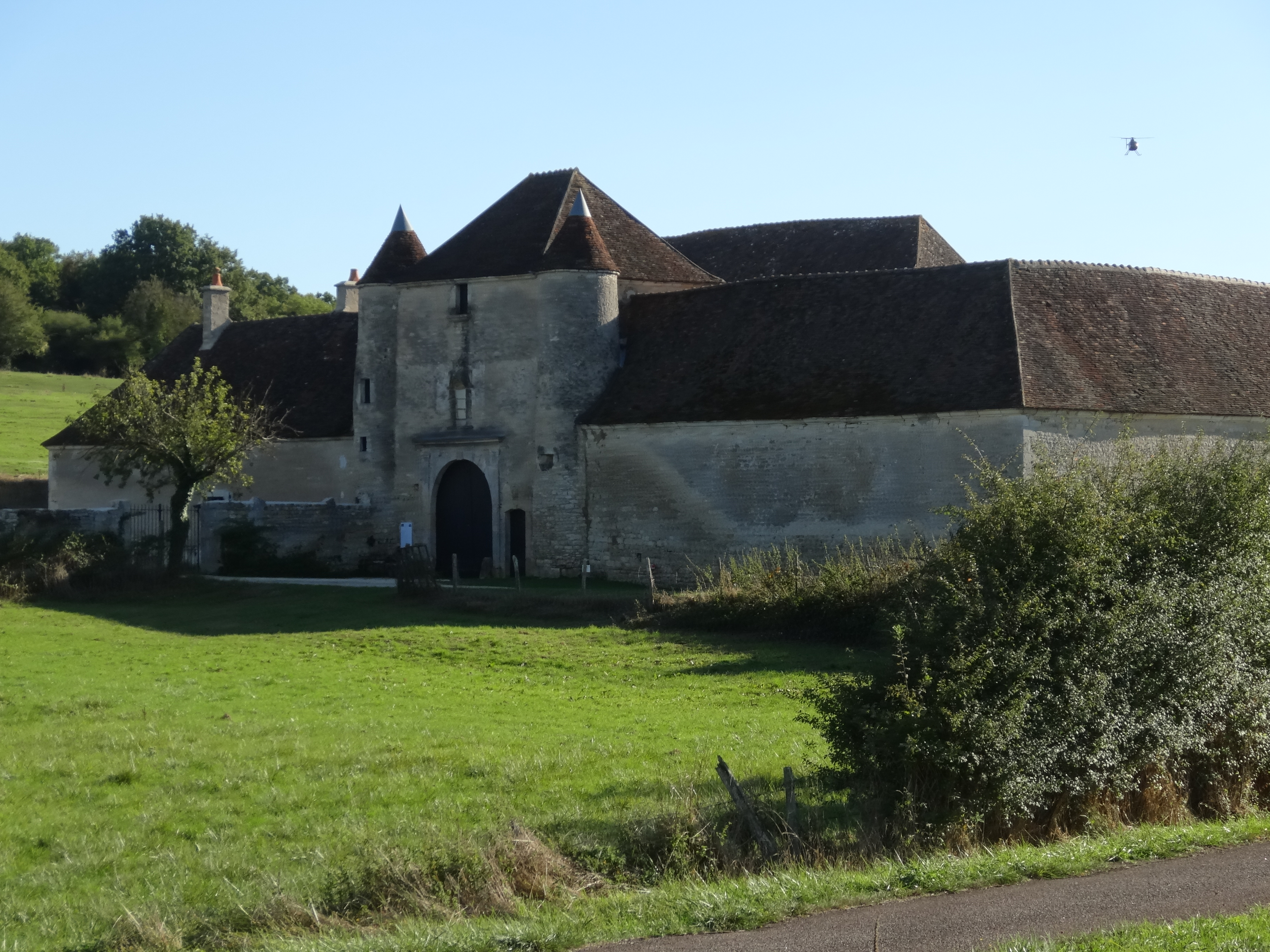 Basseville Charterhouse, Pousseaux, Département Nièvre, Région Bourgogne-Franche-Comté, France